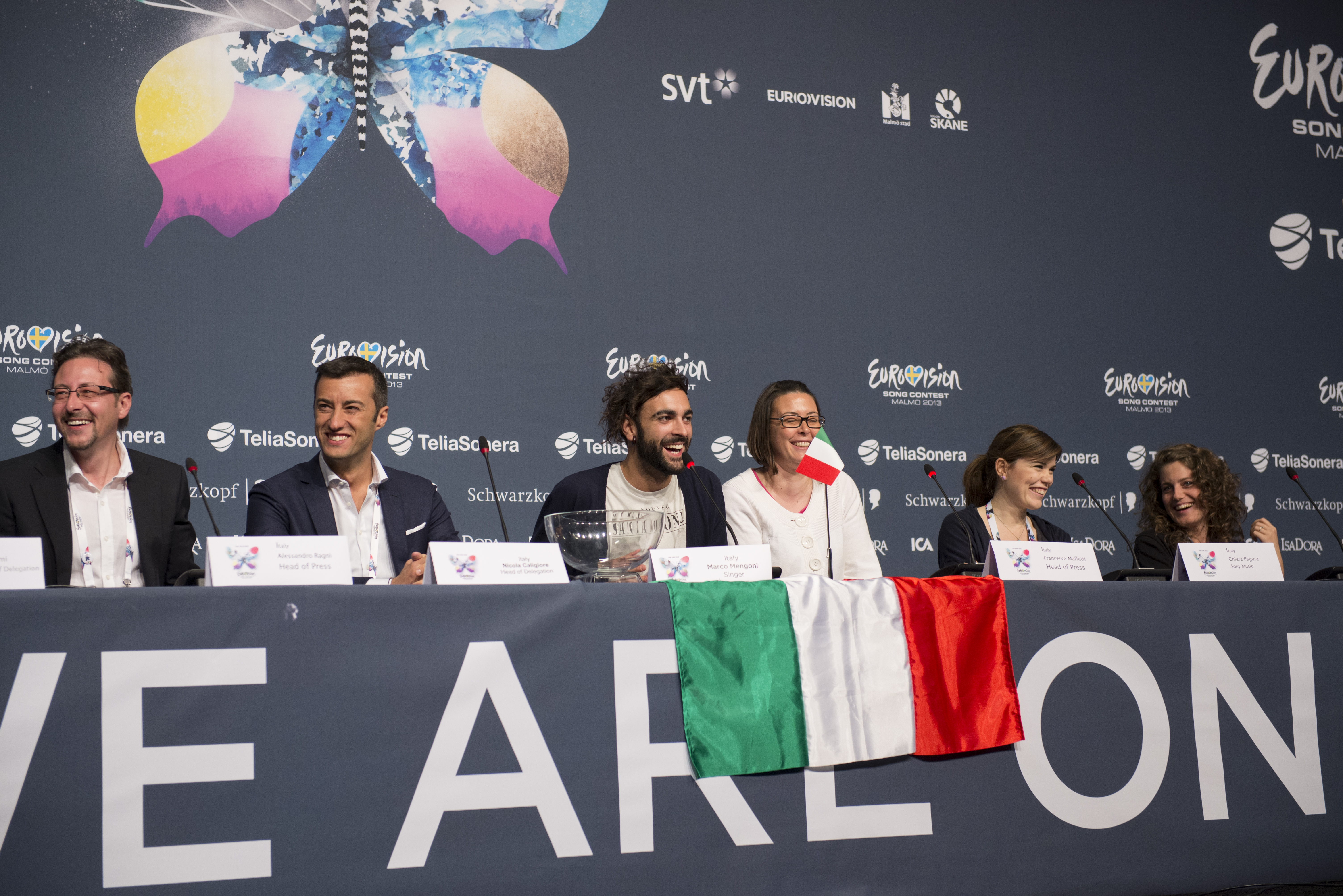 Marco Mengoni at a press conference during the Eurovision Song Contest 2013 in Malmö. (Help translate this text)